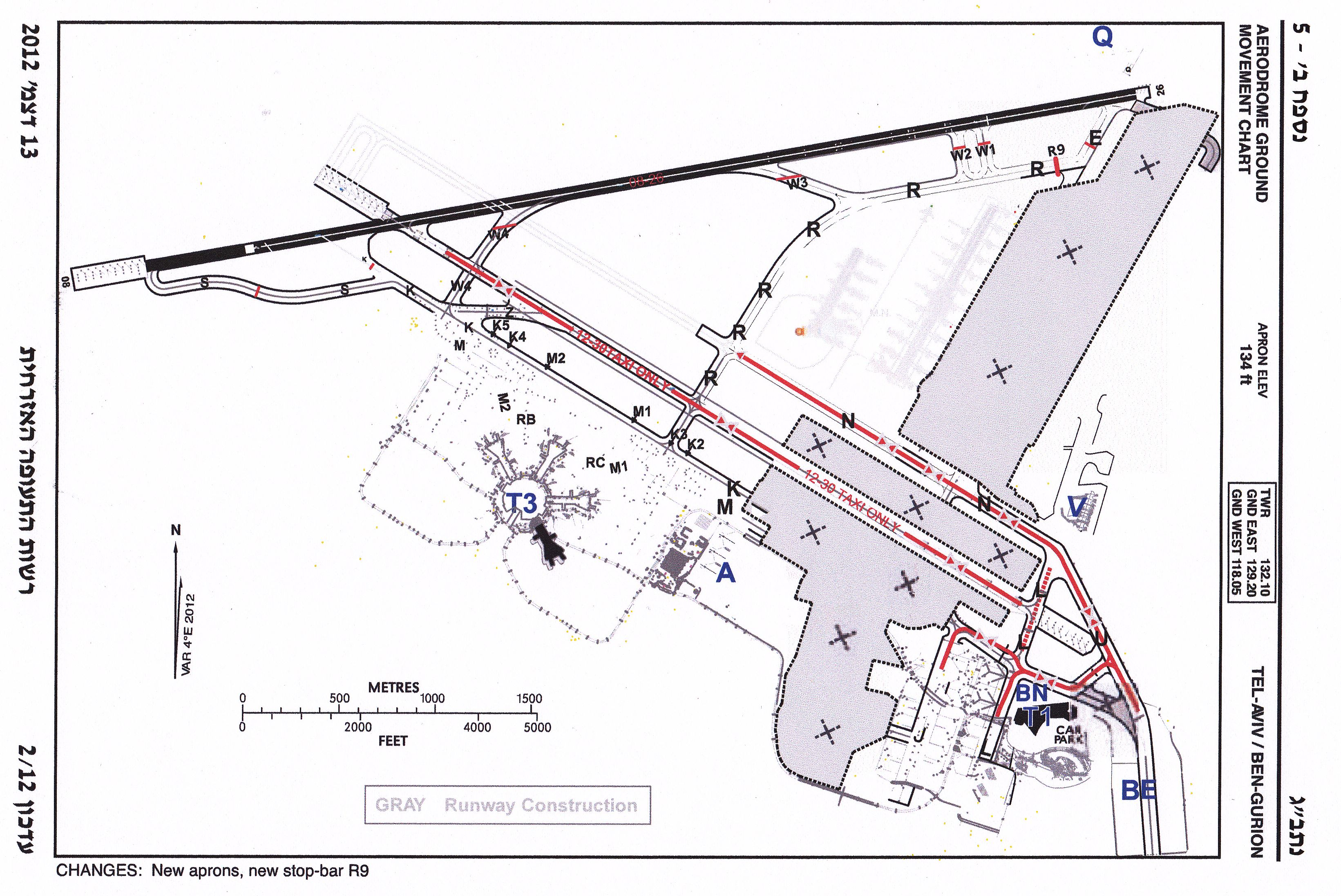 Ben-Gurion (Israel) Aerodrome Chart